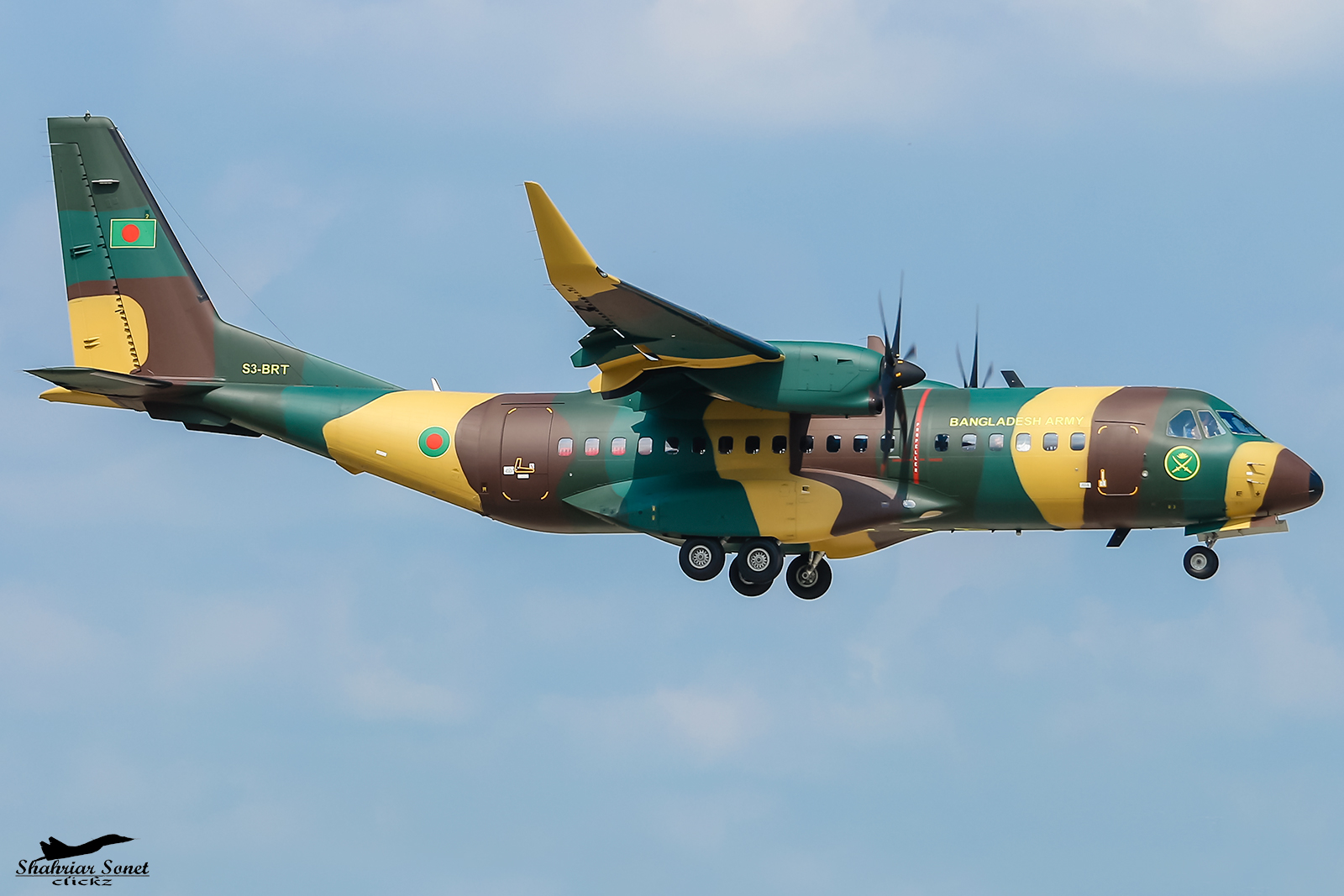 Bangladesh Army Aviation latest inclusion CN-295W landing at VGHS.